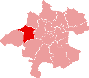 Location of Bezirk Ried im Innkreis within the Land of Upper Austria